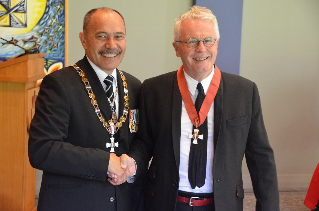 Mike Chunn (right), of Auckland, after his investiture as a Companion of the New Zealand Order of Merit for services to music and mental health awareness, by the governor-general, Sir Jerry Mateparae, on 7 May 2015